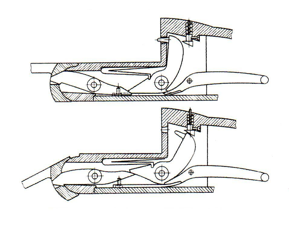 device trigger mechanism of Ensona-Dileya